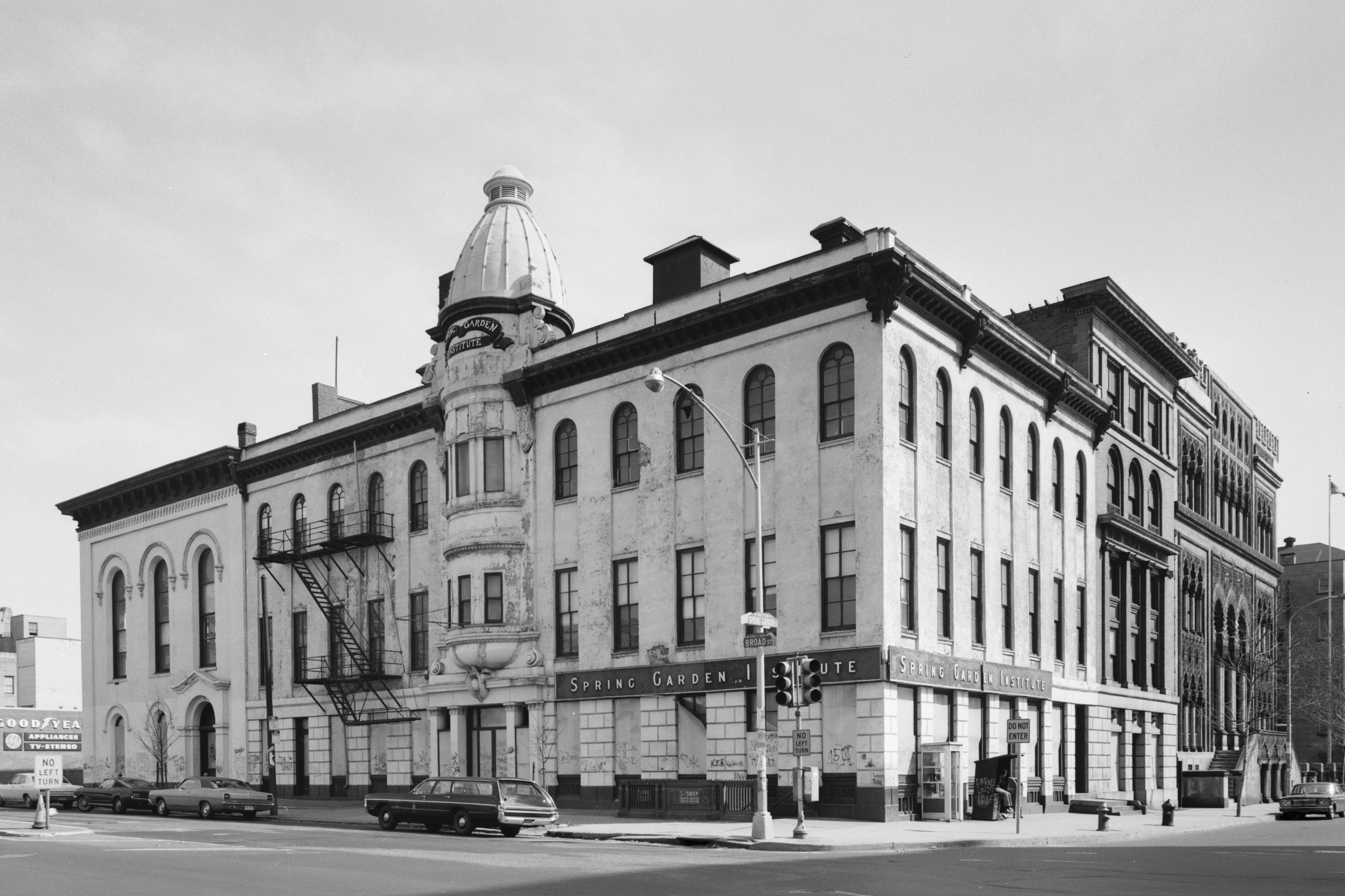 The Spring Garden Institute at 823-25 North Broad Street, Philadelphia, Pennsylvania. Building built about 1851 to designs of Stephen Decatur Button, torn down in 1972.